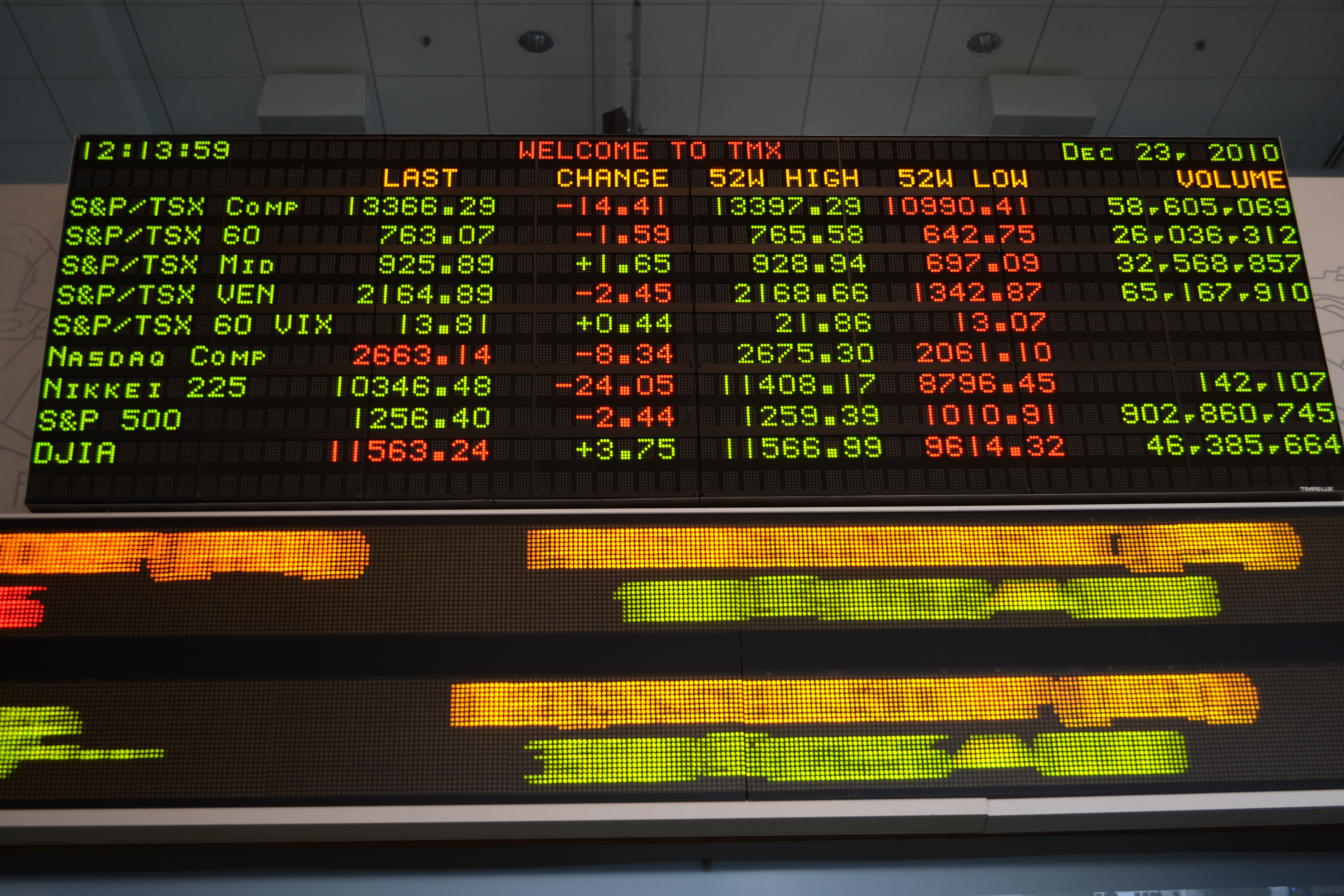 TMX Group